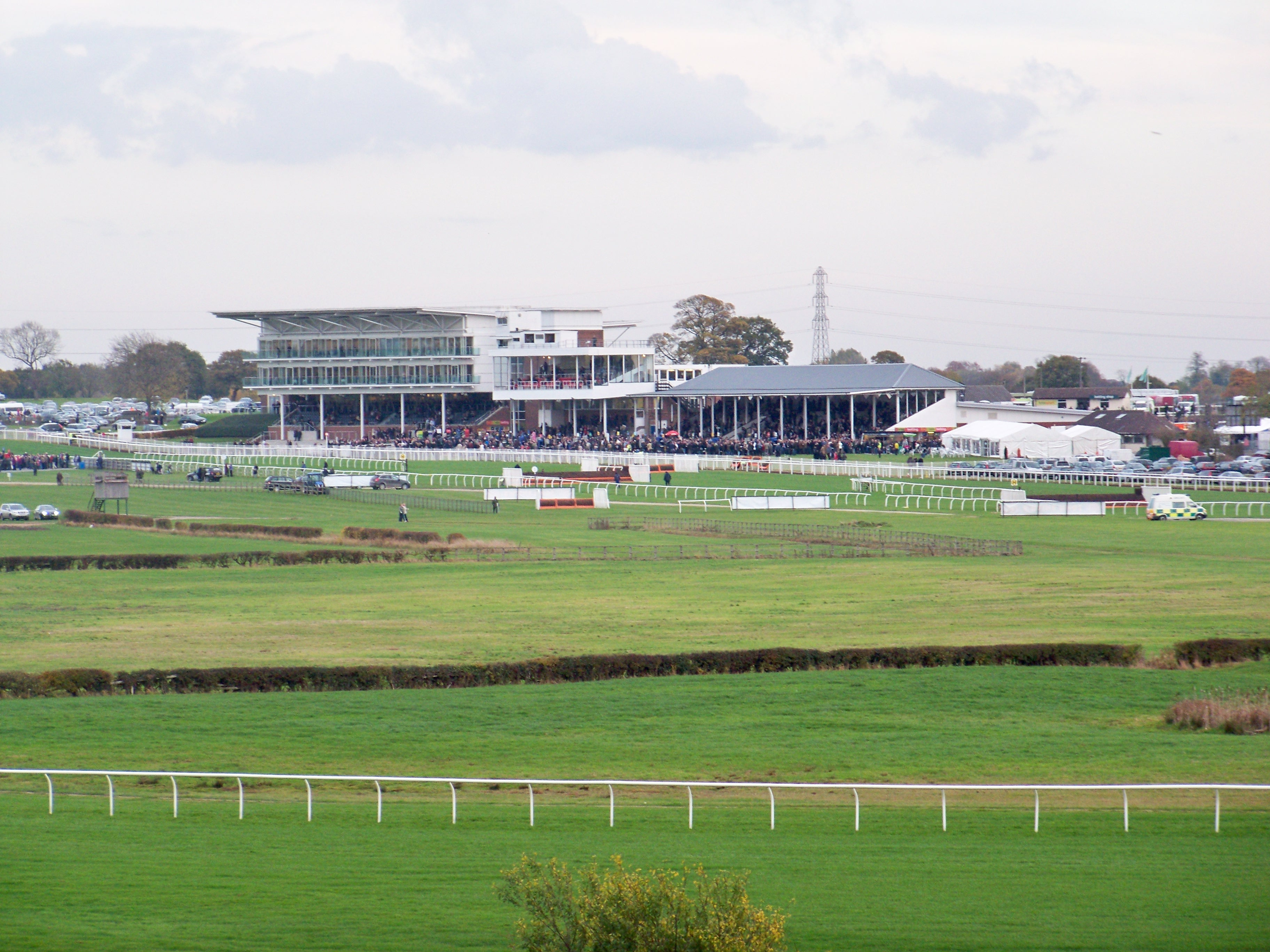 Wetherby racecourse during the Charlie Hall Chase. Taken on the afternoon of Saturday the 30th of October 2010.